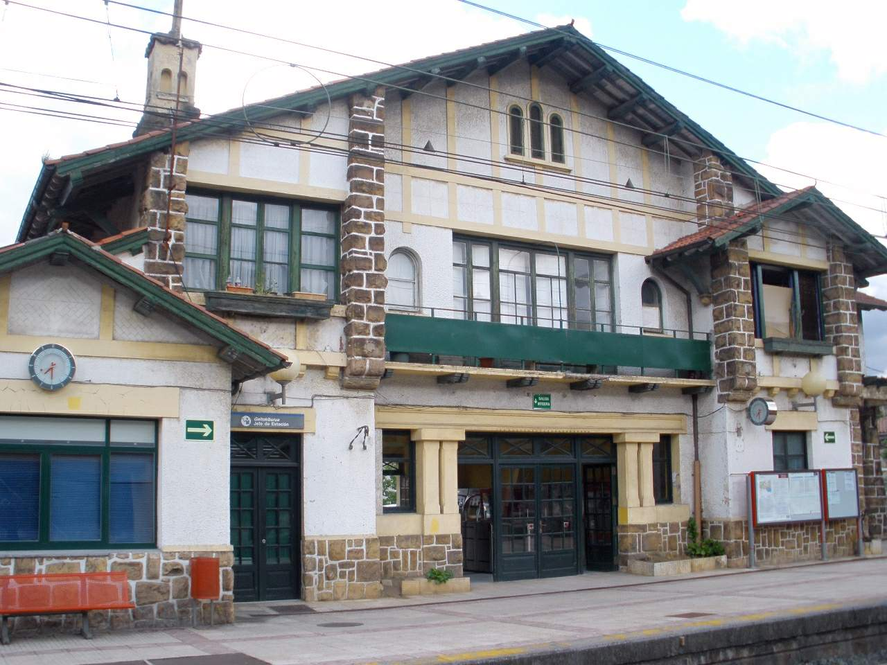 Estación de Renfe Cercanías en Arrigorriaga, Vizcaya